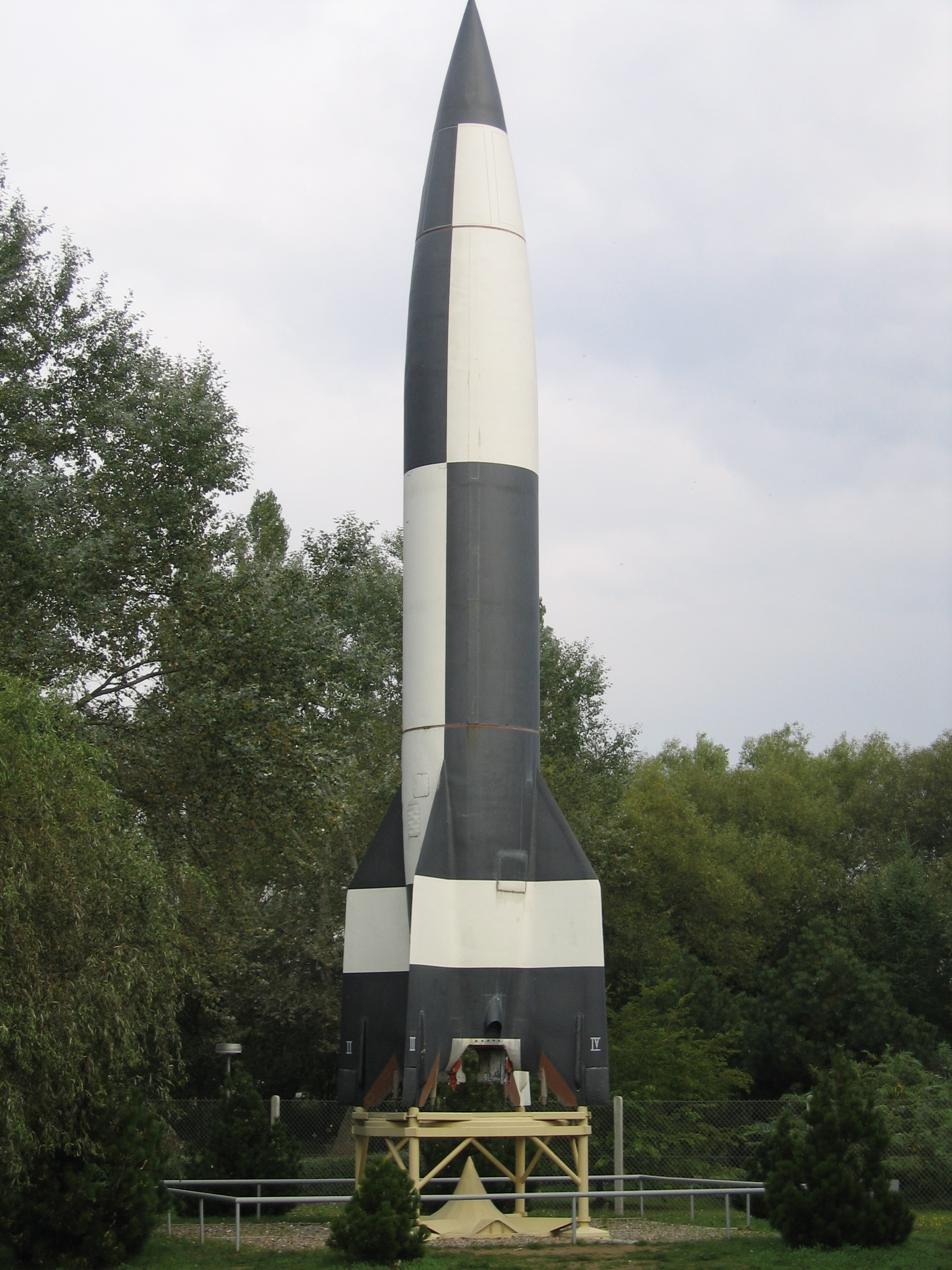 A4-Modell (HTI Peenemünde). Museum in Peenemünde,Deutschland, Peenemünde.